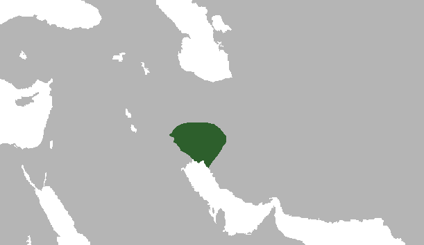 Map of Elymais in 51 BC, adapted from the Cambridge Ancient History (1966), Vol IX. Map 14 (inset between pages 612 and 613). Made personally, using World_map_blank_gmt.png.